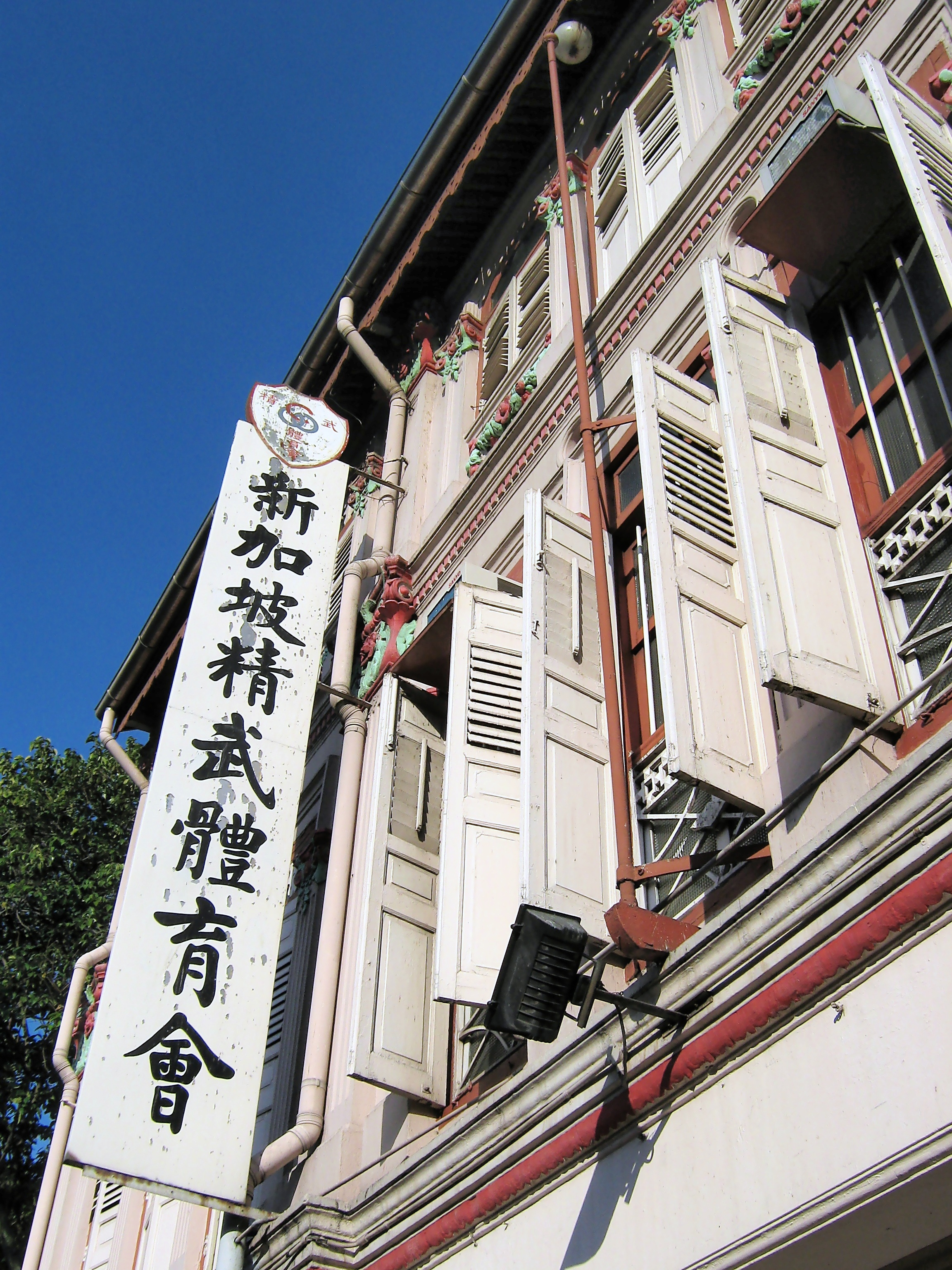 In Apr/May 2009, I took 15 days to walk all the way from Tokyo to Kyoto, roughly following the 546km long, ancient highway, the Nakasendo, alone. This picture was taken on one of the many training walks I did for the long solo walk in Singapore. Read about my preparations and my time in Japan at .